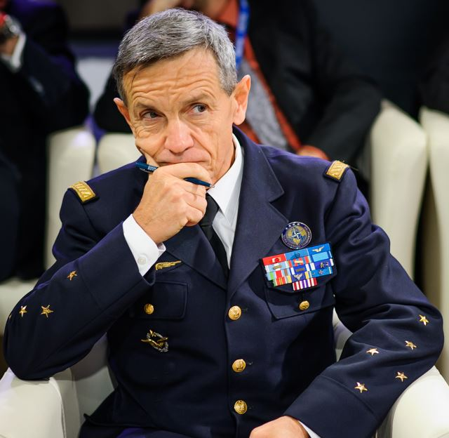 Jean-Paul Paloméros at Halifax International Security Forum 2014